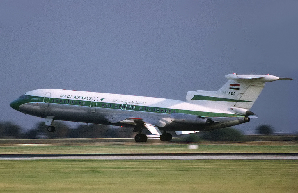 Iraqi Airways Hawker Siddeley HS-121 Trident 1E at London Heathrow Airport